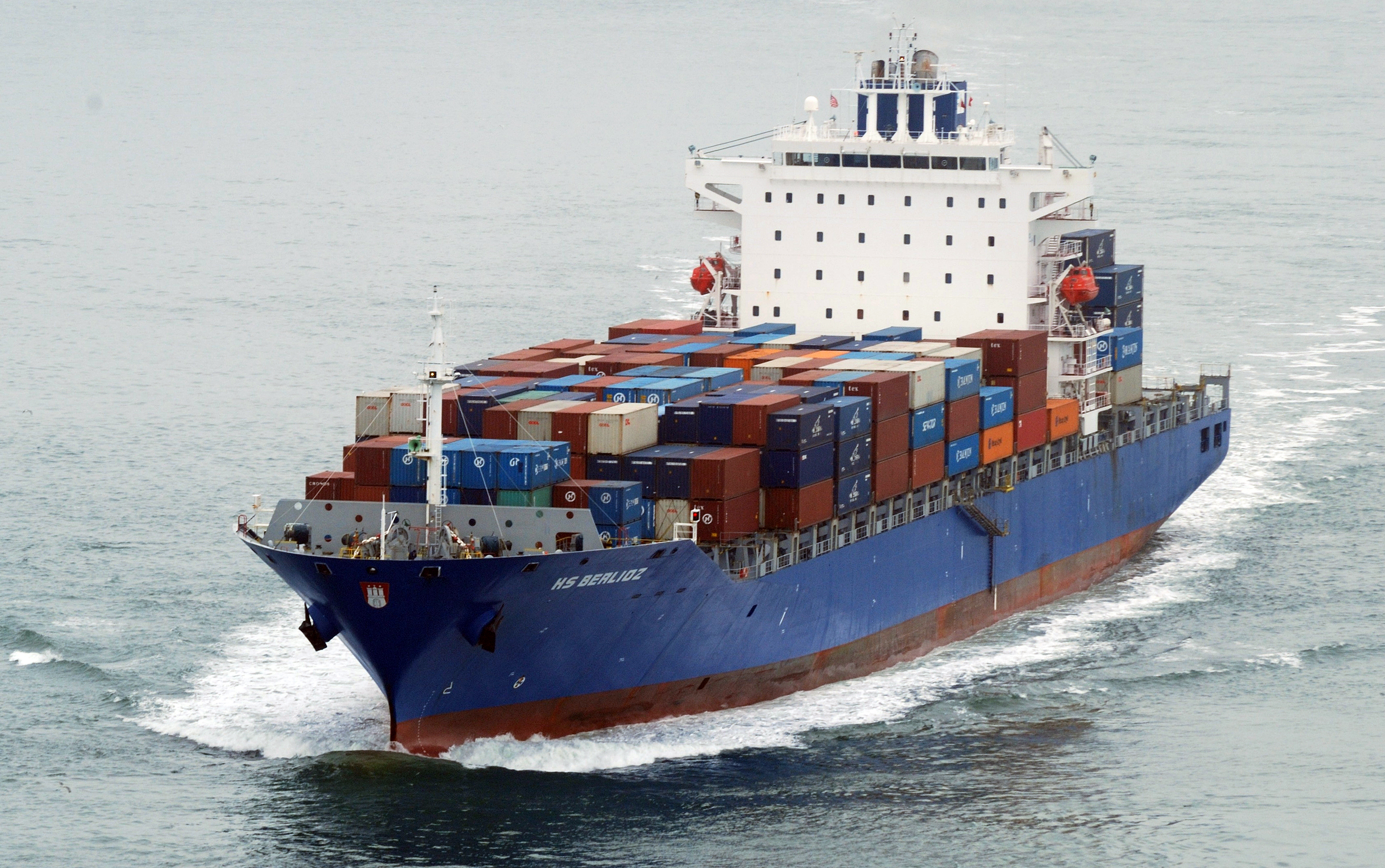 Container ship HS Berlioz in San Francisco